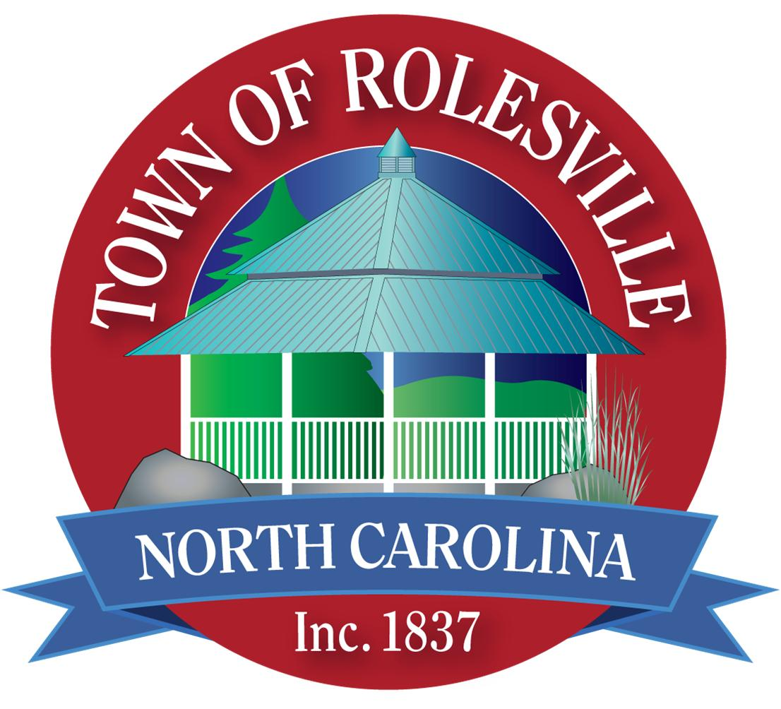 Seal of the Town of Rolesville